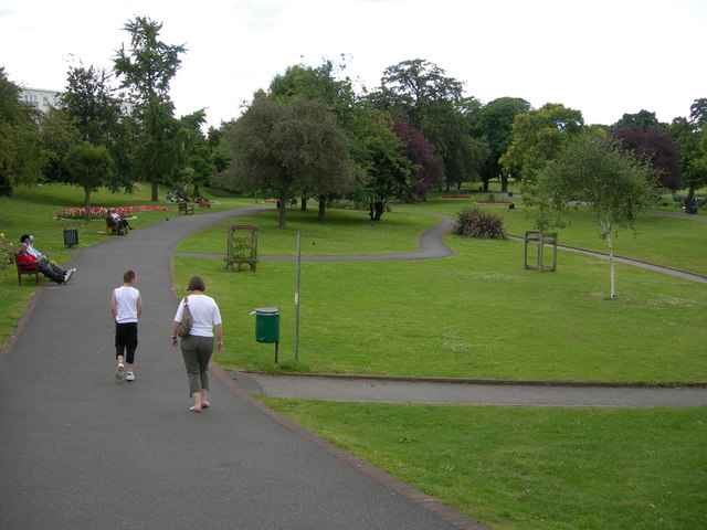 Gordon Gardens, Gravesend A part of the Gravesend Riverside Leisure Area.